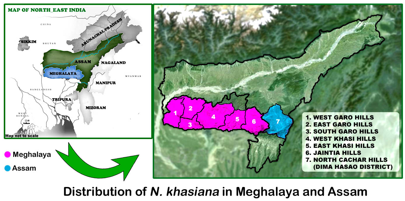 Distribution of N. khasiana in Meghalaya has been mapped (district wise) as per previous reports and that of Assam as reported in Current Science Vol 3 No. 8, 25 October 2016.